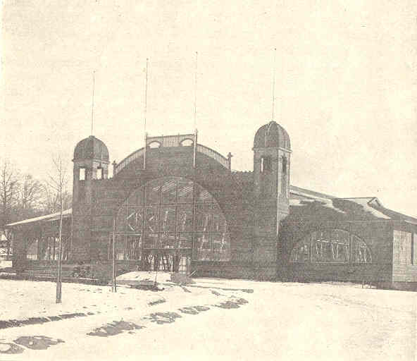 ”Maskinhallen under byggnadstiden”. The Machine Hall, by the Swedish architect Werner Northun on the Industrial and art exhibition in Norrköping, Sweden, the summer 1906.